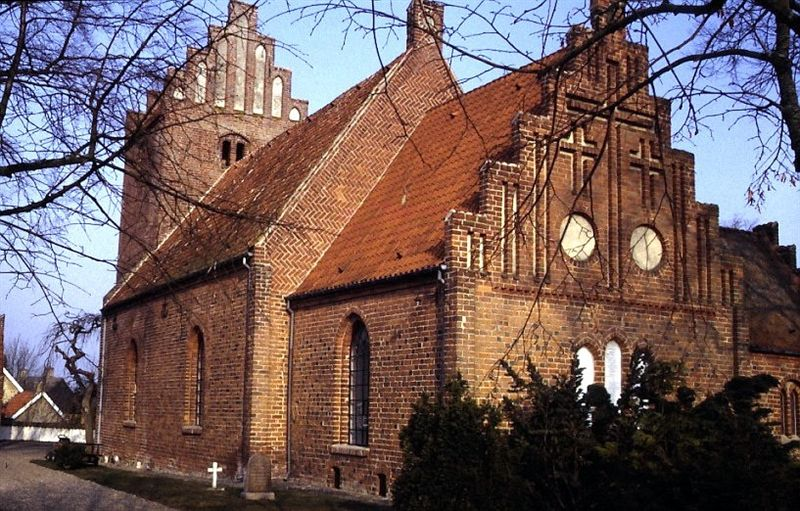 Vejlø Church, Vejløvej 67A, DK 4700 Næstved